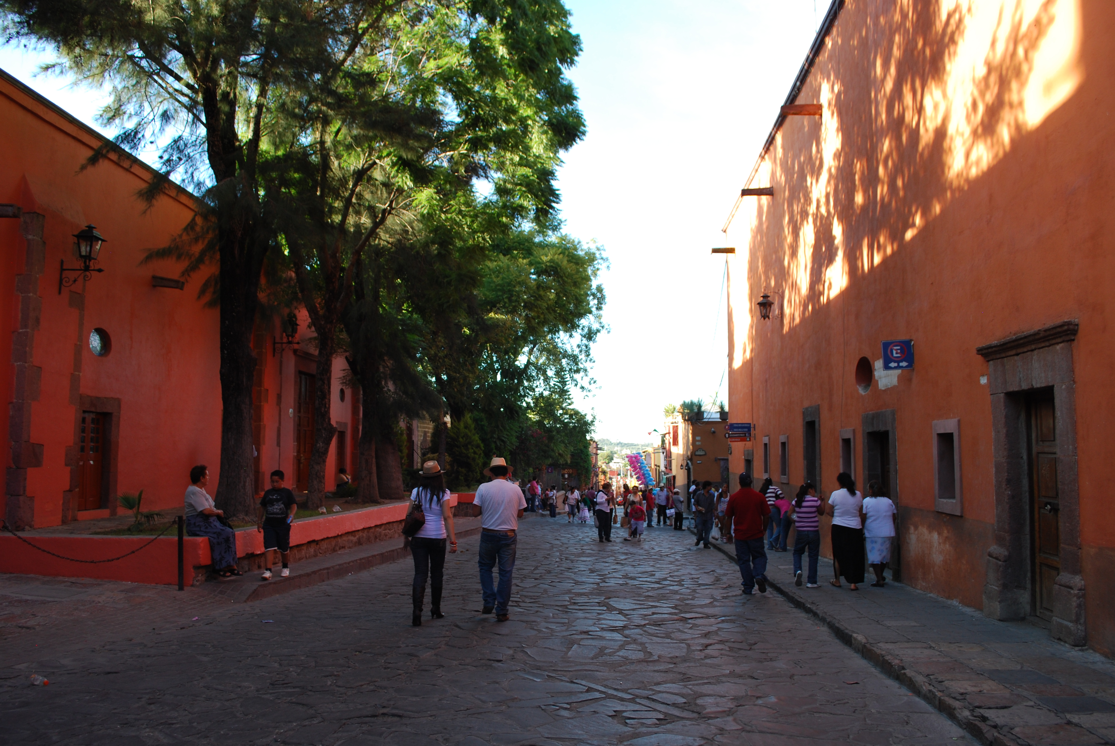 Macias Street in San Miguel de Allende, Guanajuato, Mexico